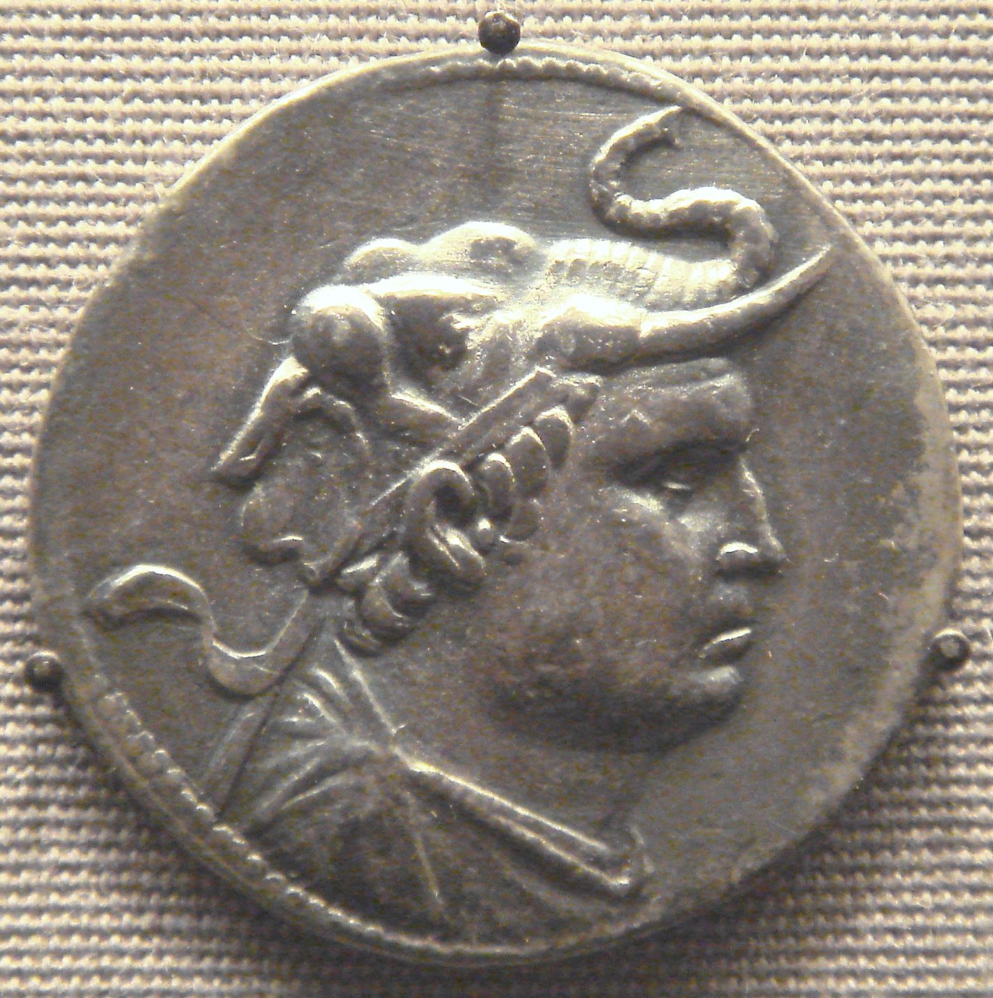 Demetrius_I_of_Bactria_British_Museum